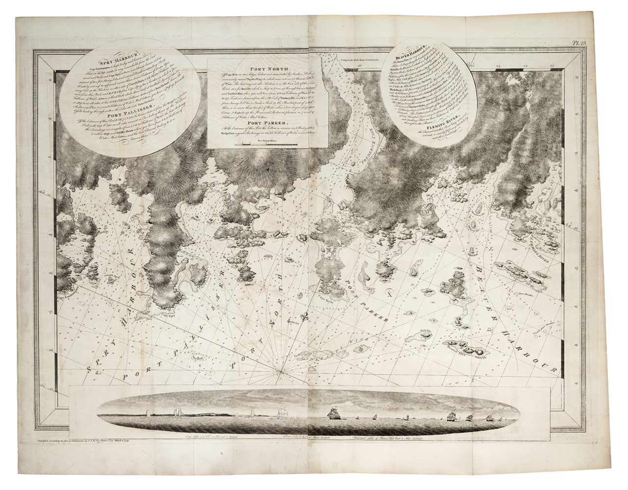 [Spry Harbour to Flemming River]Two sheets. Engraved. Scale: 1:30 000 (bar). Cartographic Note: North at 23 degrees. Variation shown 14 degrees 8' W. There is an error in the longitude graduation on the top margin: 30' should be 29'. Additional Places: Nova Scotia. Contents Note: Text panels contain sailing directions. There is one view. Plate changes: The settlement at Mackerel Bason has been extended and the page number has been changed to 'Pl.23.' Other features: The west sheet is Bates paper, the east is Whatman. HNS 52F [Spry Harbour to Flemming River]